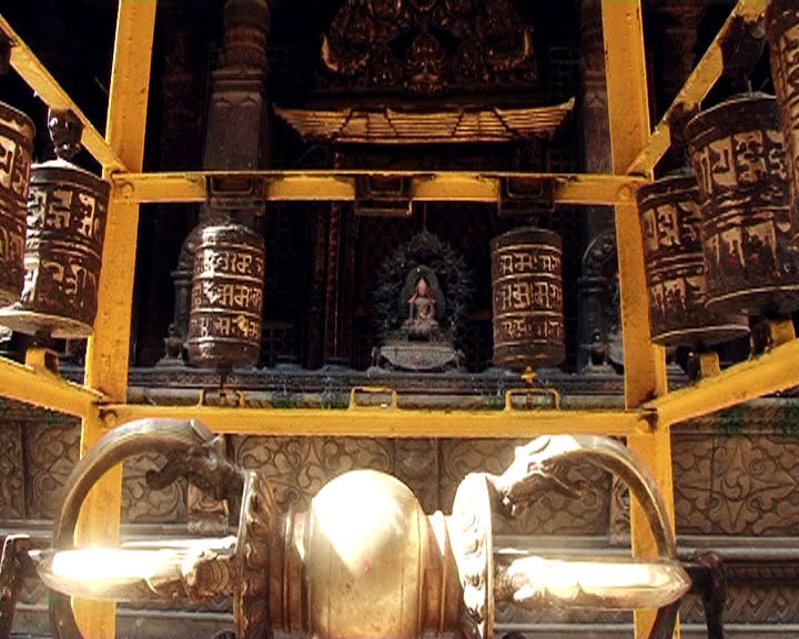 Buddha inside Hiranya Varna Mahabihar Temple